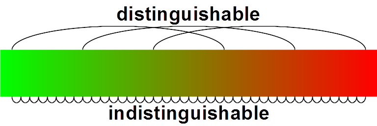 Color gradient from green to red, any adjacent colors being indistinguishable for the human eye